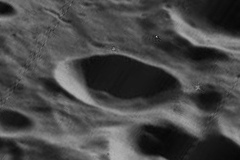 Oblique view of D. Brown, on the far side of the moon, facing west.